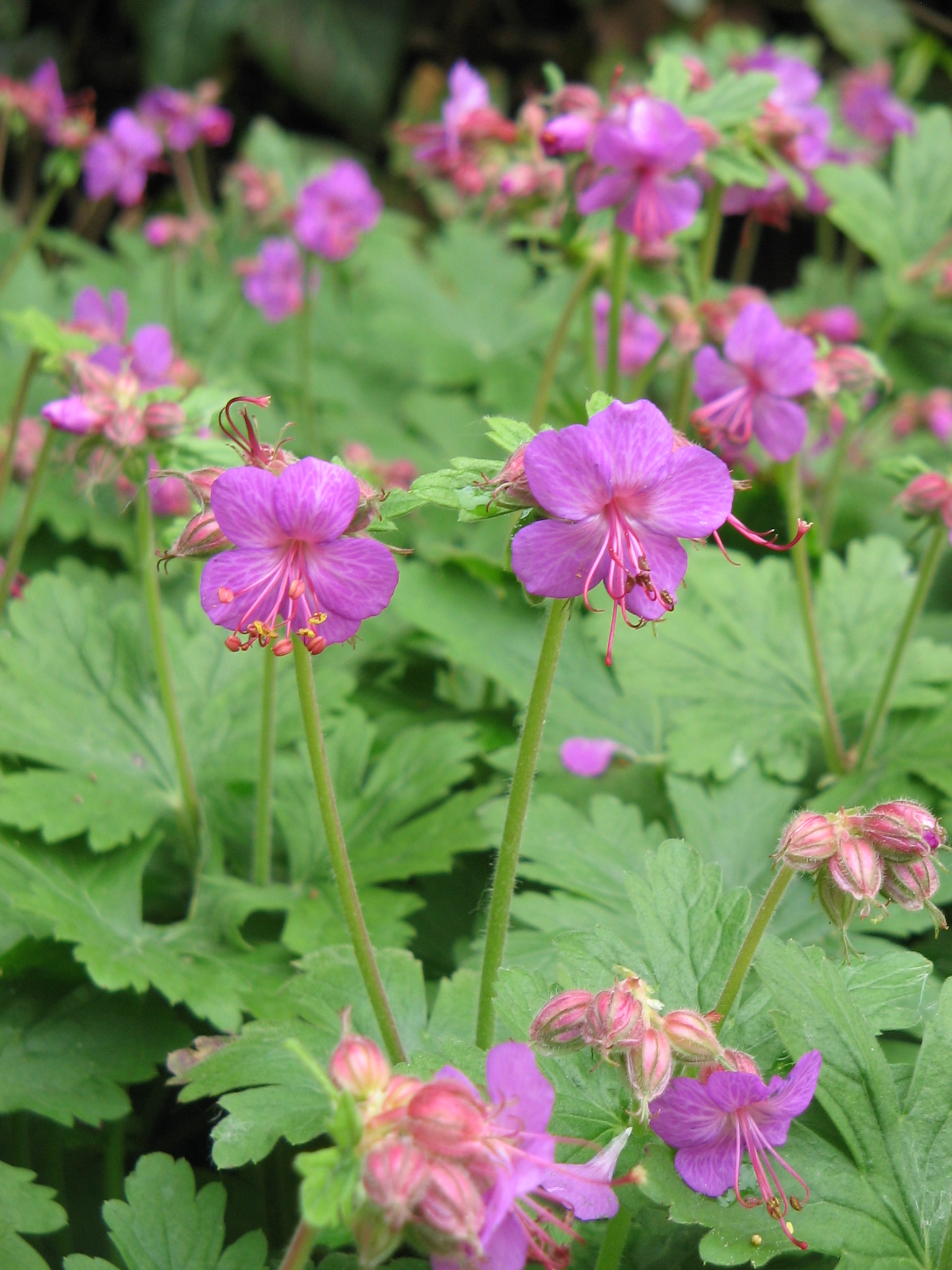 Geranium macrorrhizum close-up